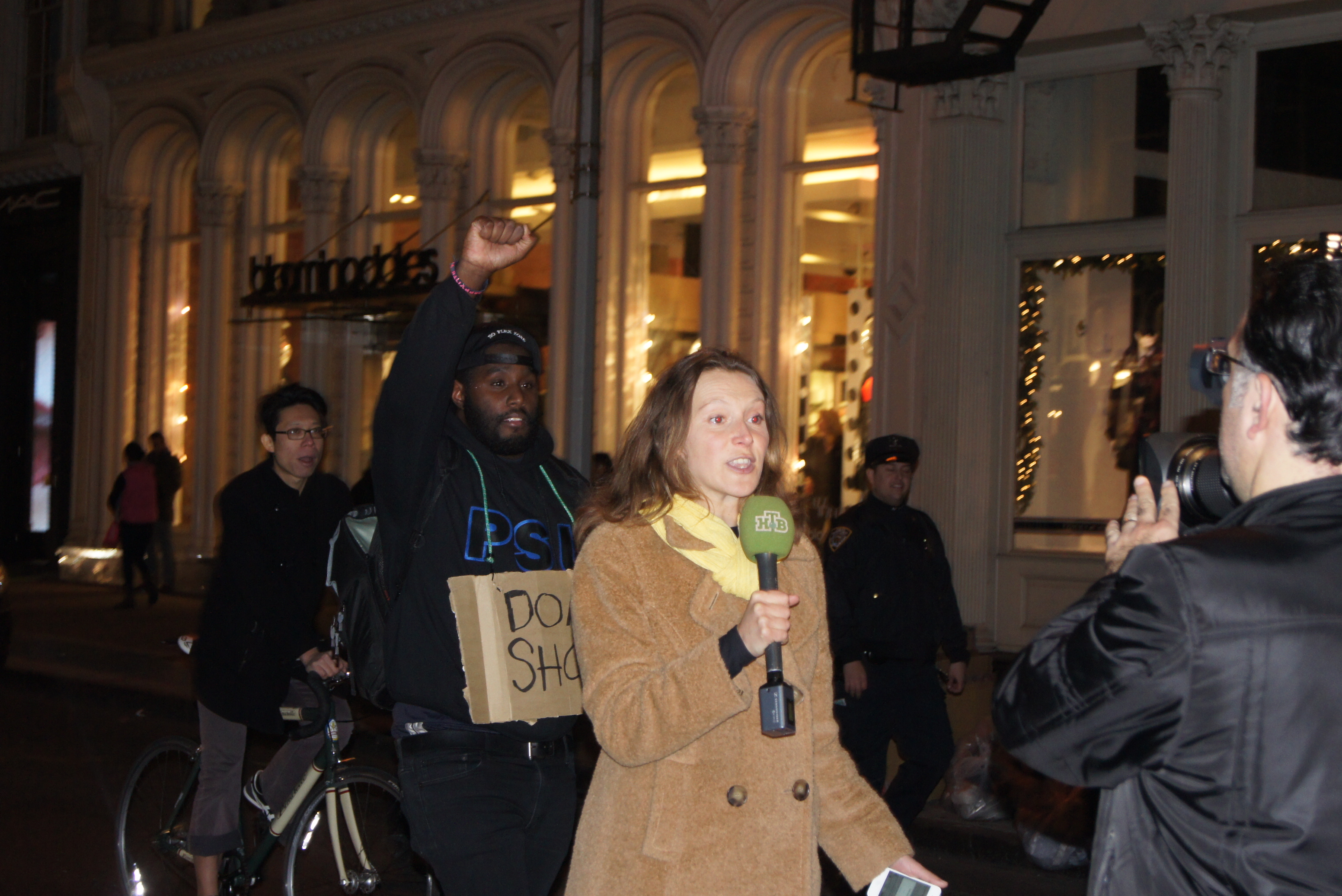 This image is from the protests surrounding the Shooting of Michael Brown and other related events. It was taken in New York City.